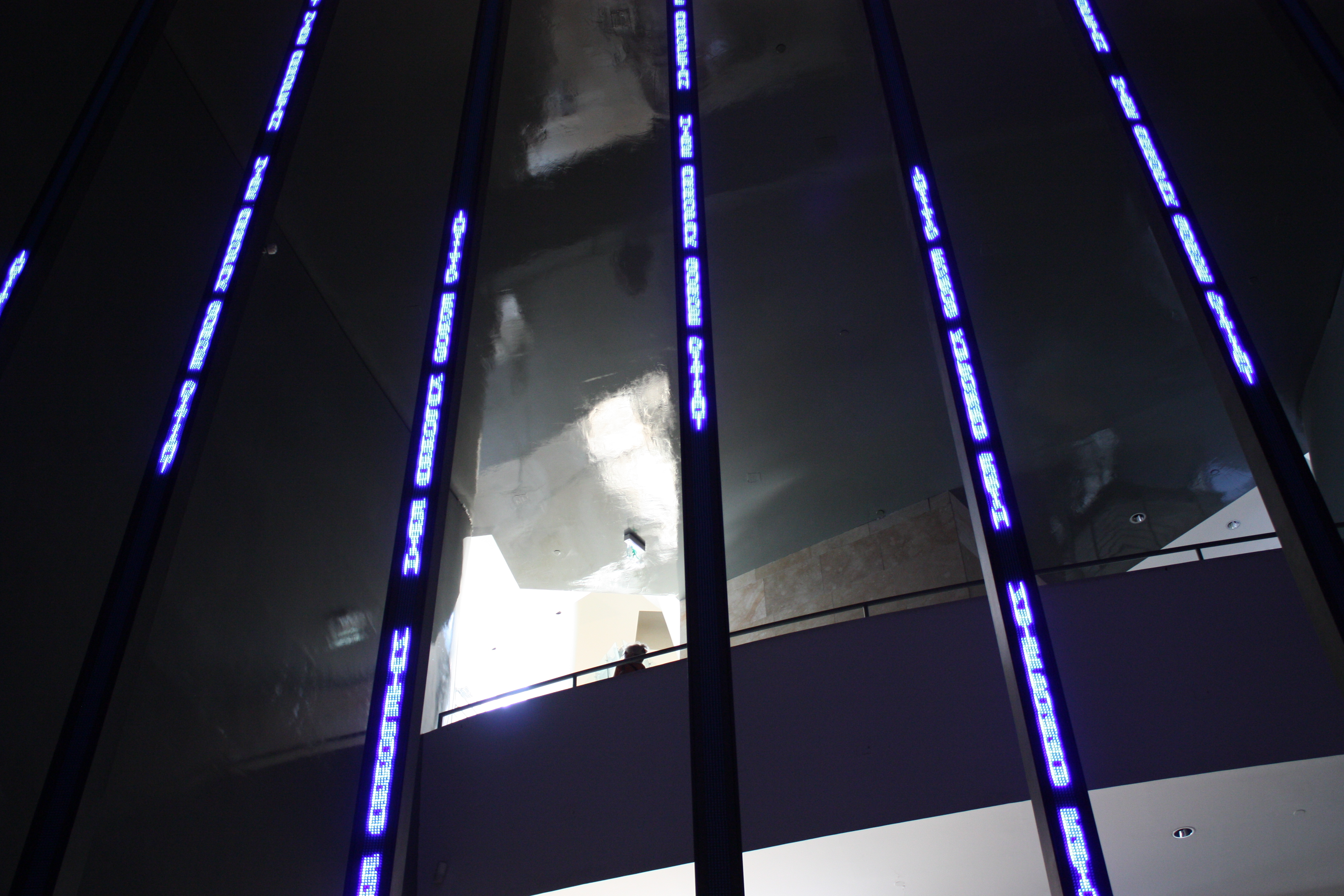 "Installation for Bilbao" (by Jenny Holzer), Guggenheim Museum, Bilbao, Biscay, Spain, July 2010